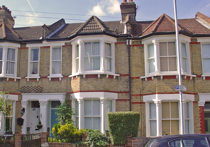 Hither Green street